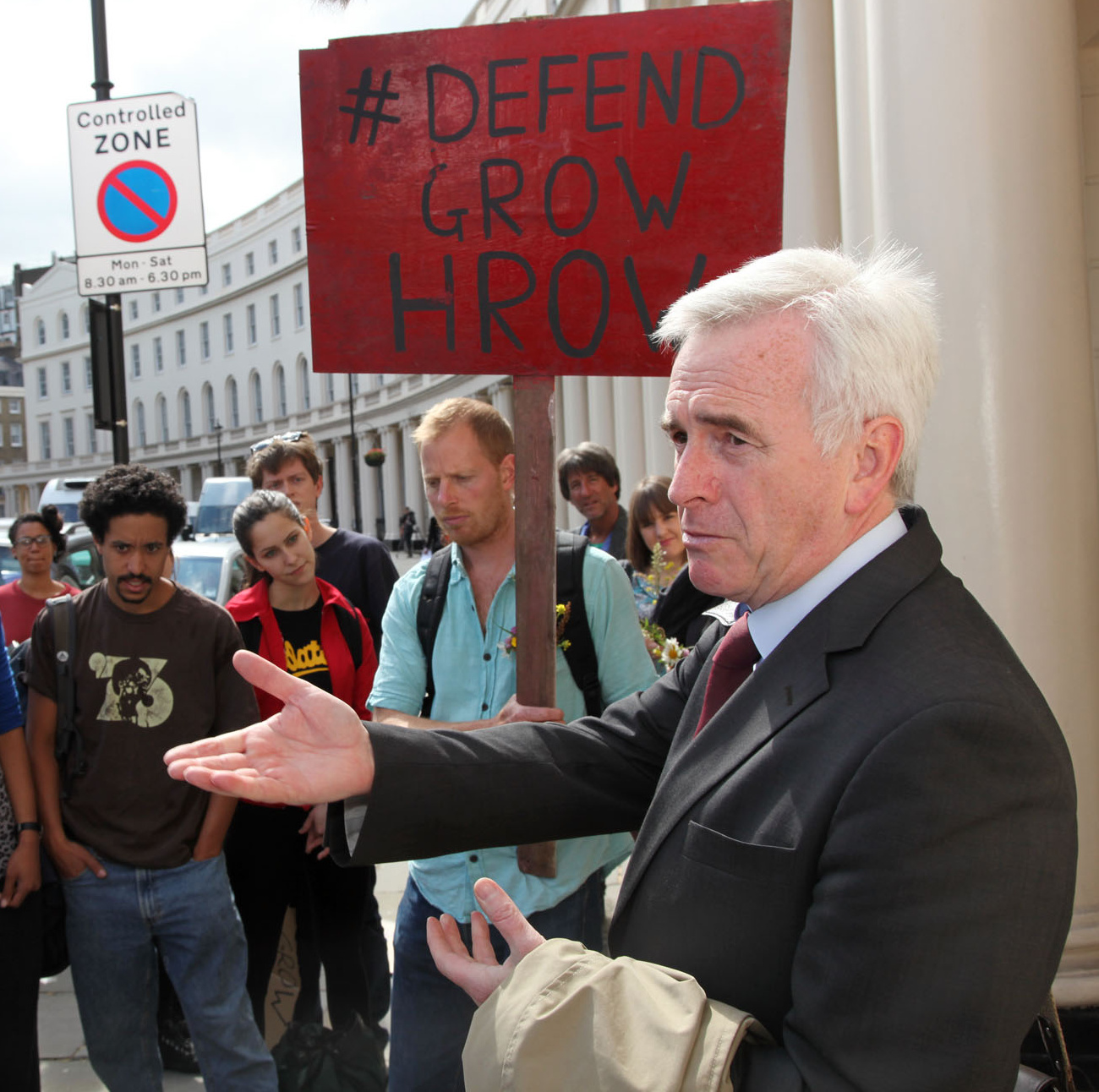 John McDonnell and Residents and supporters of Grow Heathrow outside Central London County Court. Photo by Jonathan Goldberg